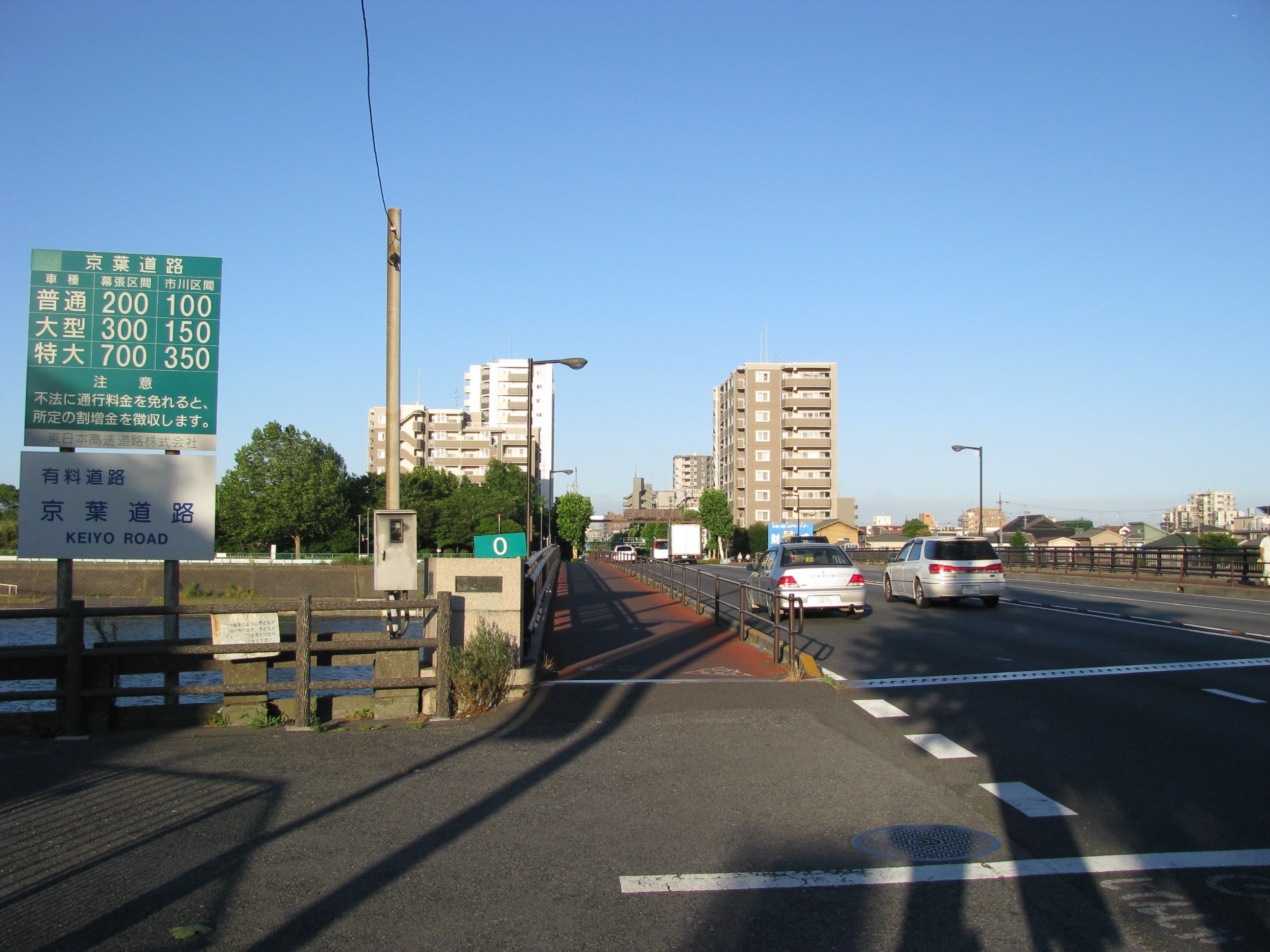 The Keiyō road is section of a Japan National Route 14. This located is Ichinoe in Edogawa, Tokyo, Japan.